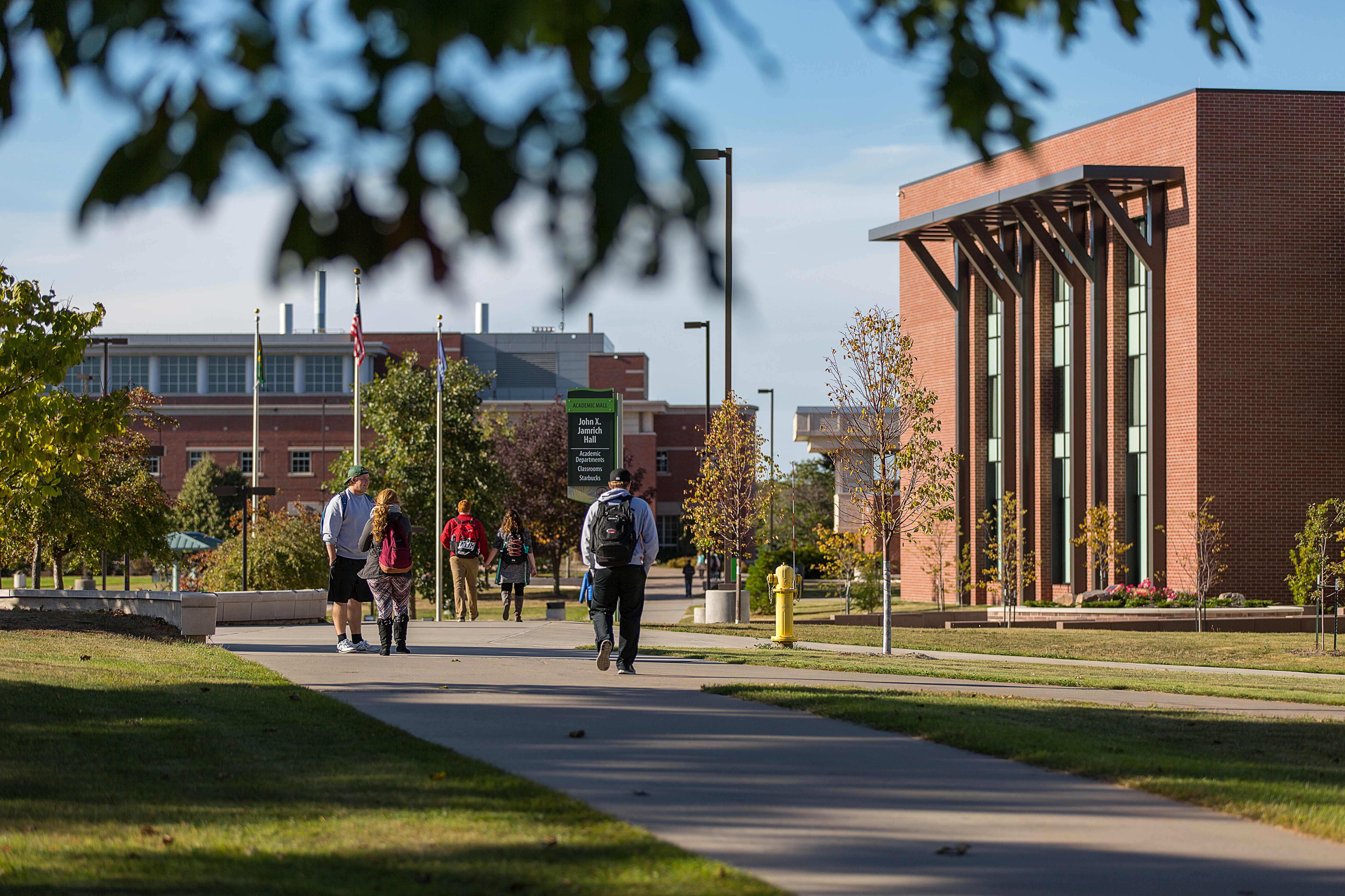 The Academic Mall is a central area on campus that connects Jamrich Hall, West Science, New Science and the Learning Resource Center.